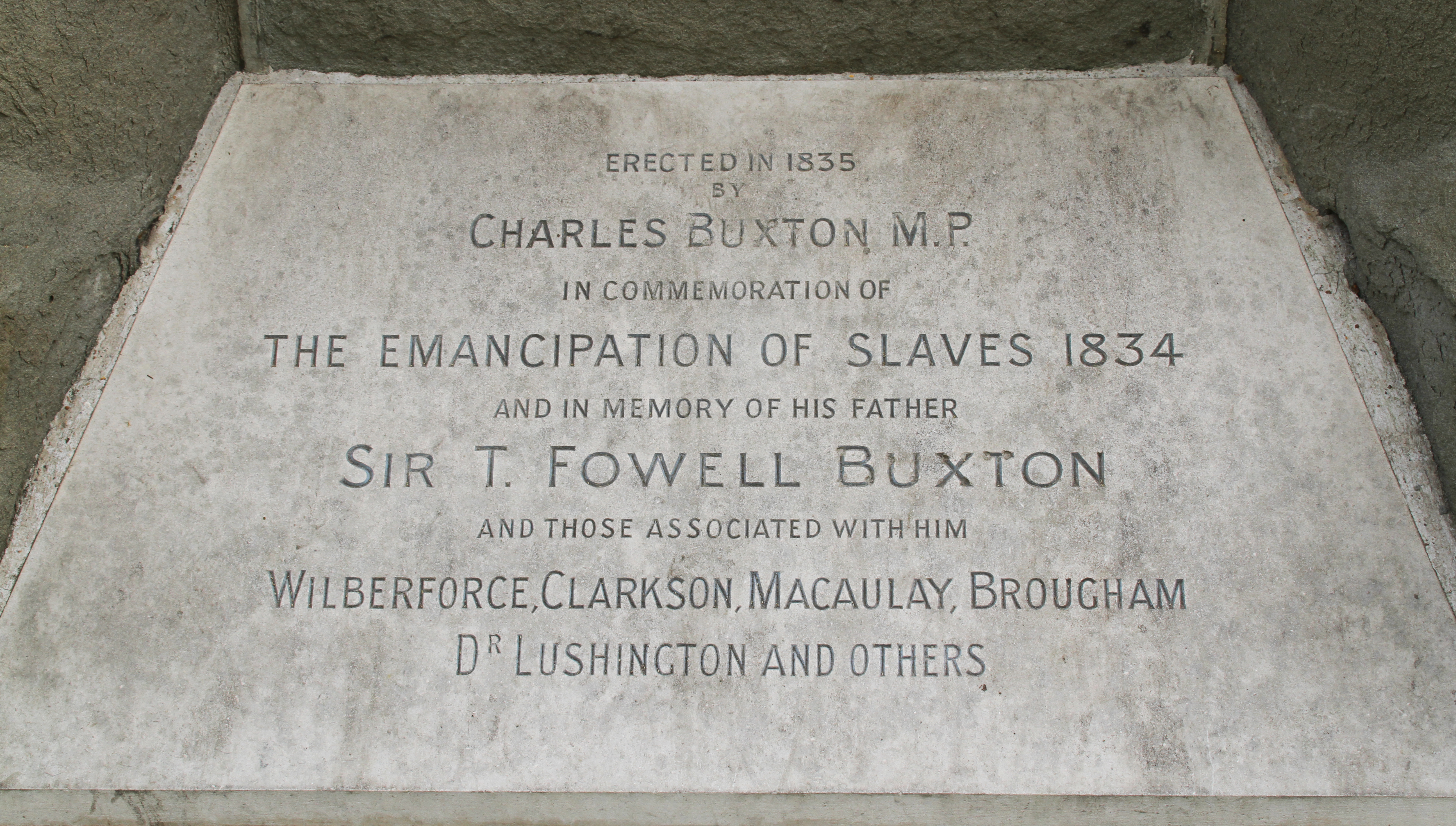 Emancipation of Slaves